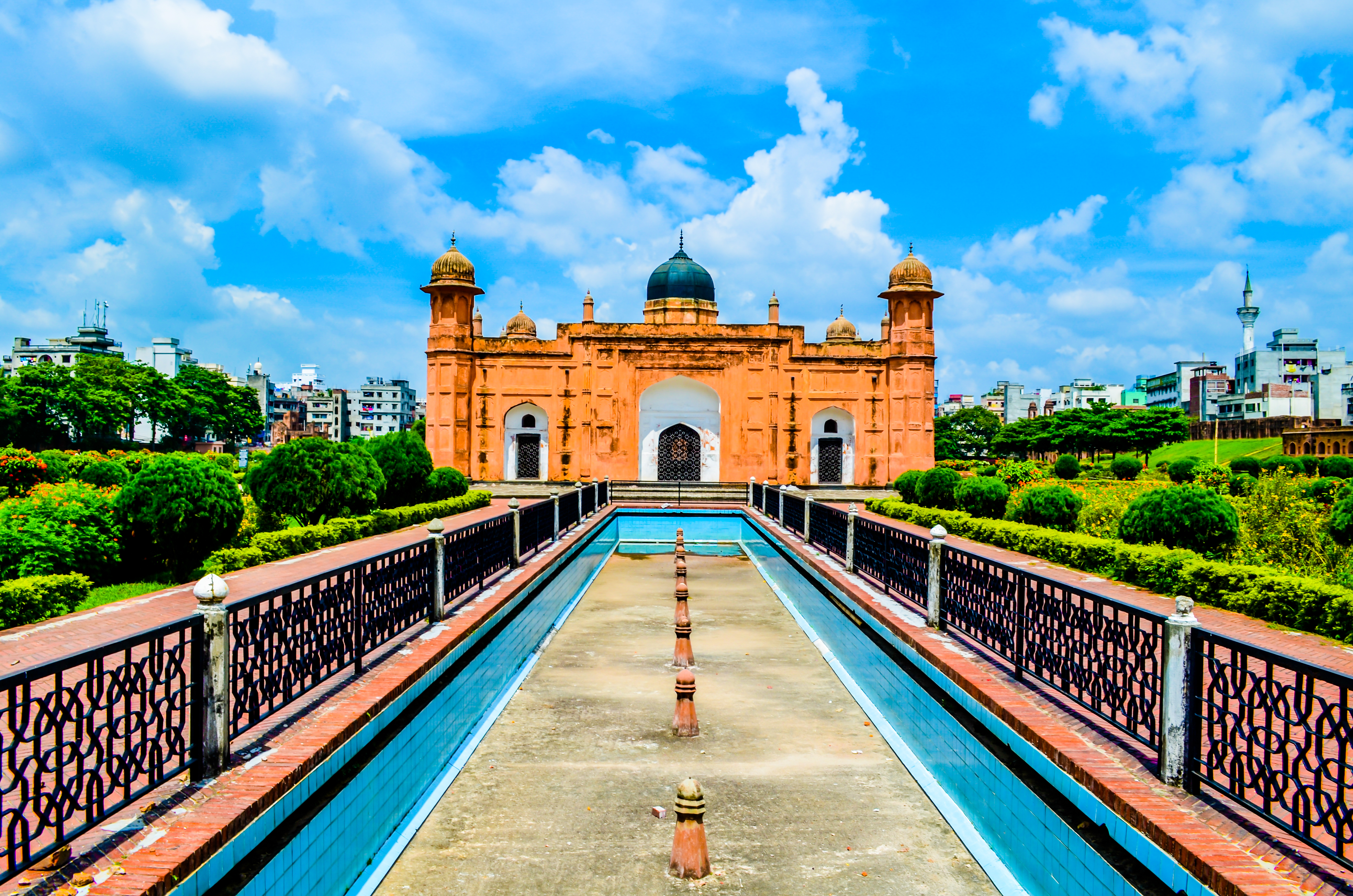 Lalbagh Fort (also Fort Aurangabad) is an incomplete 17th century Mughal fort complex that stands proudly before the Buriganga River in the southwestern part of Dhaka, Bangladesh.[1] The construction was started in 1678 AD by Mughal Subahdar Muhammad Azam Shah who was son of Emperor Aurangzeb and later emperor himself. His successor, Shaista Khan, did not continue the work, though he stayed in Dhaka up to 1688.